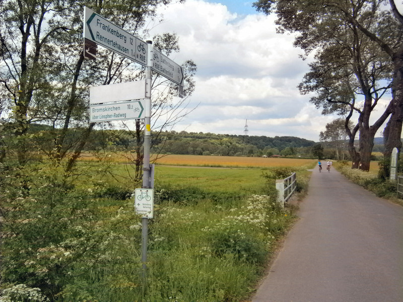 eder cycle path branch